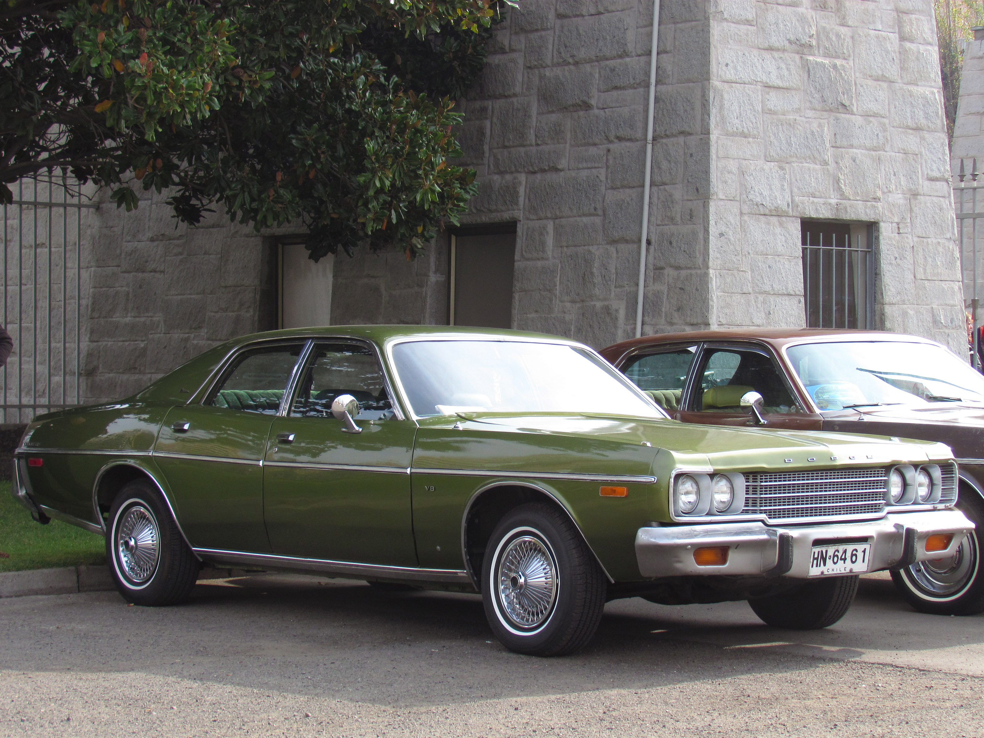 Dodge Coronet Custom Sedan 1974